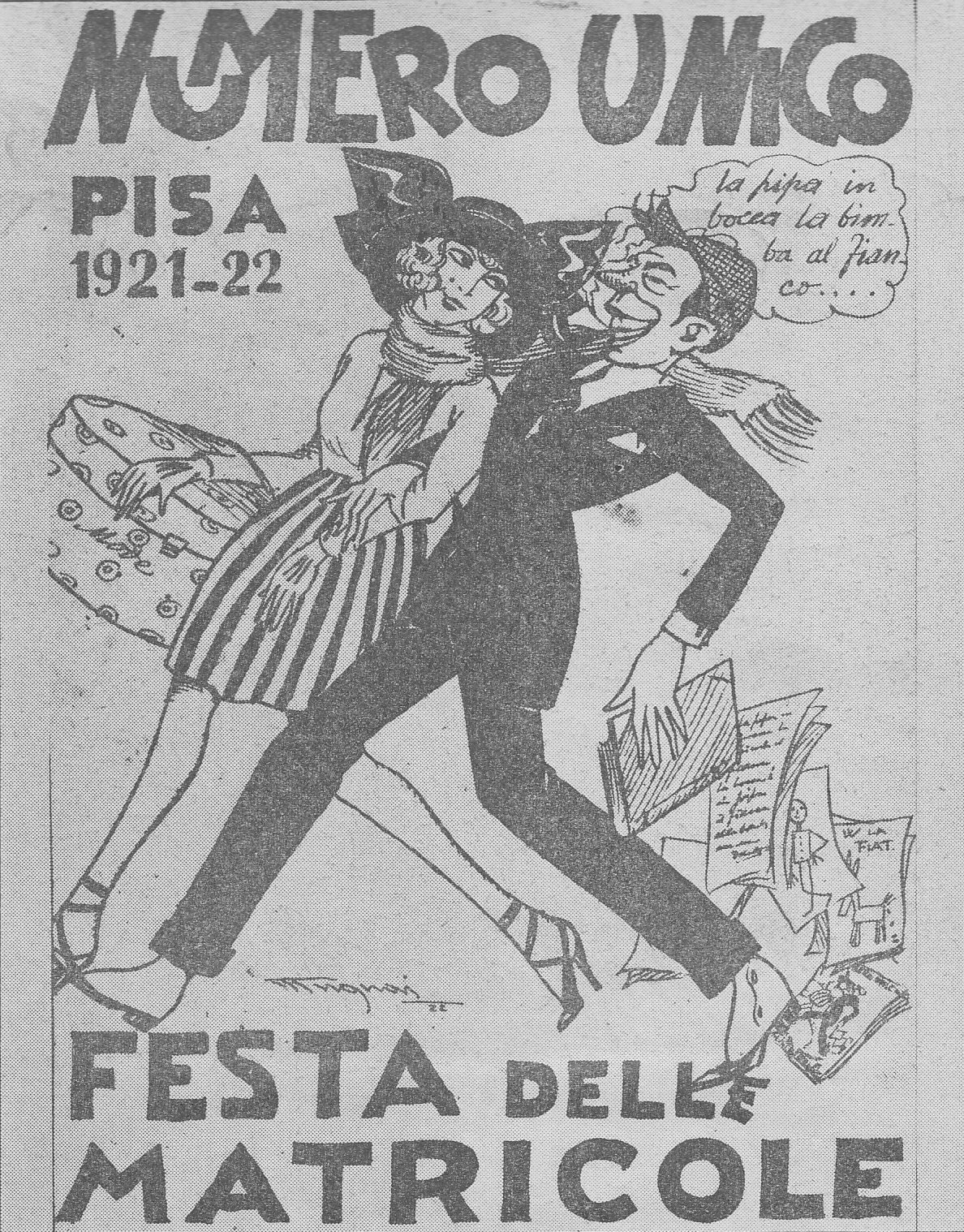 Cover of a students' magazine, University of Pisa, Tuscany, Italy.